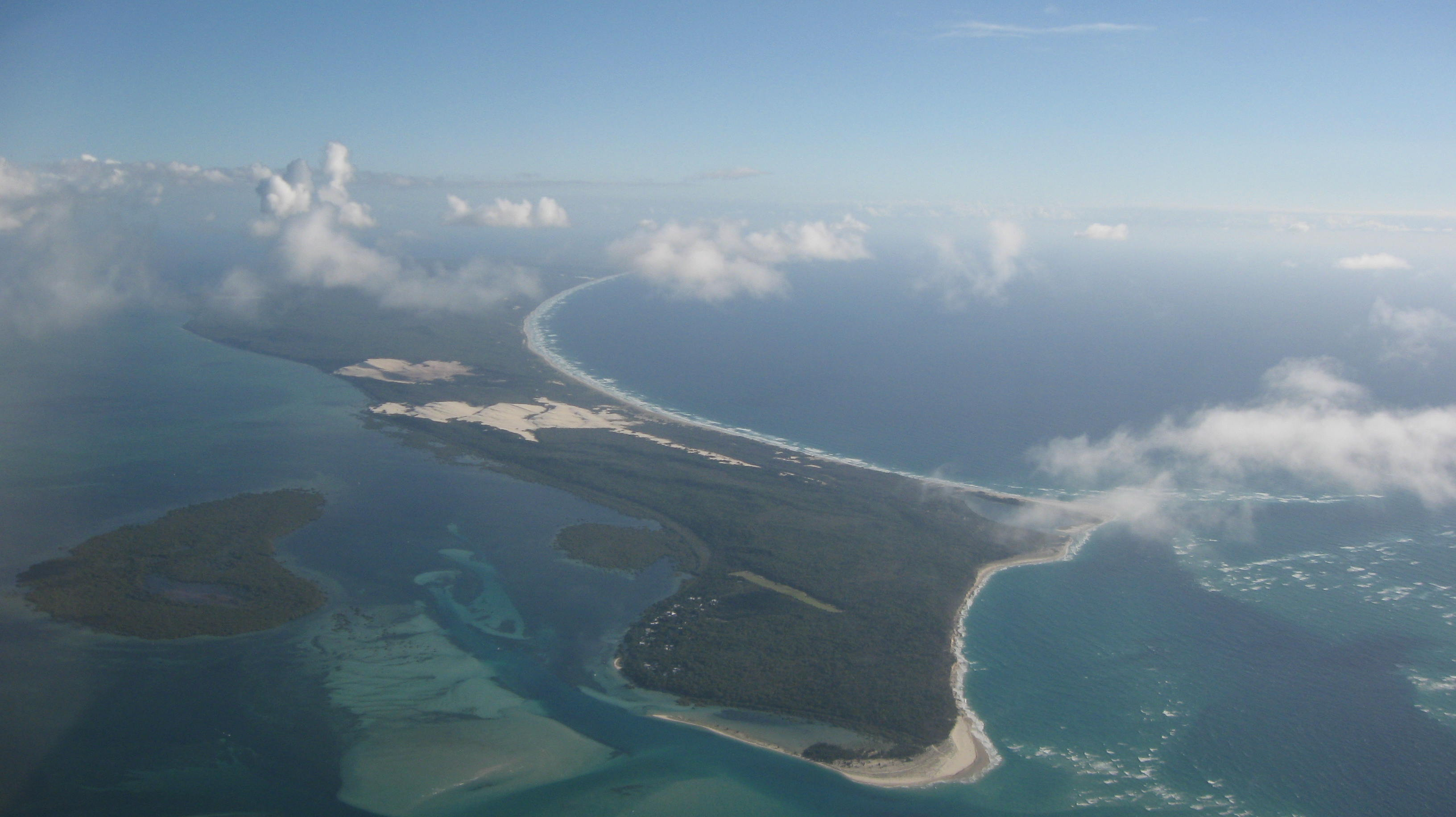 Aerial view of the southern part of Moreton Island